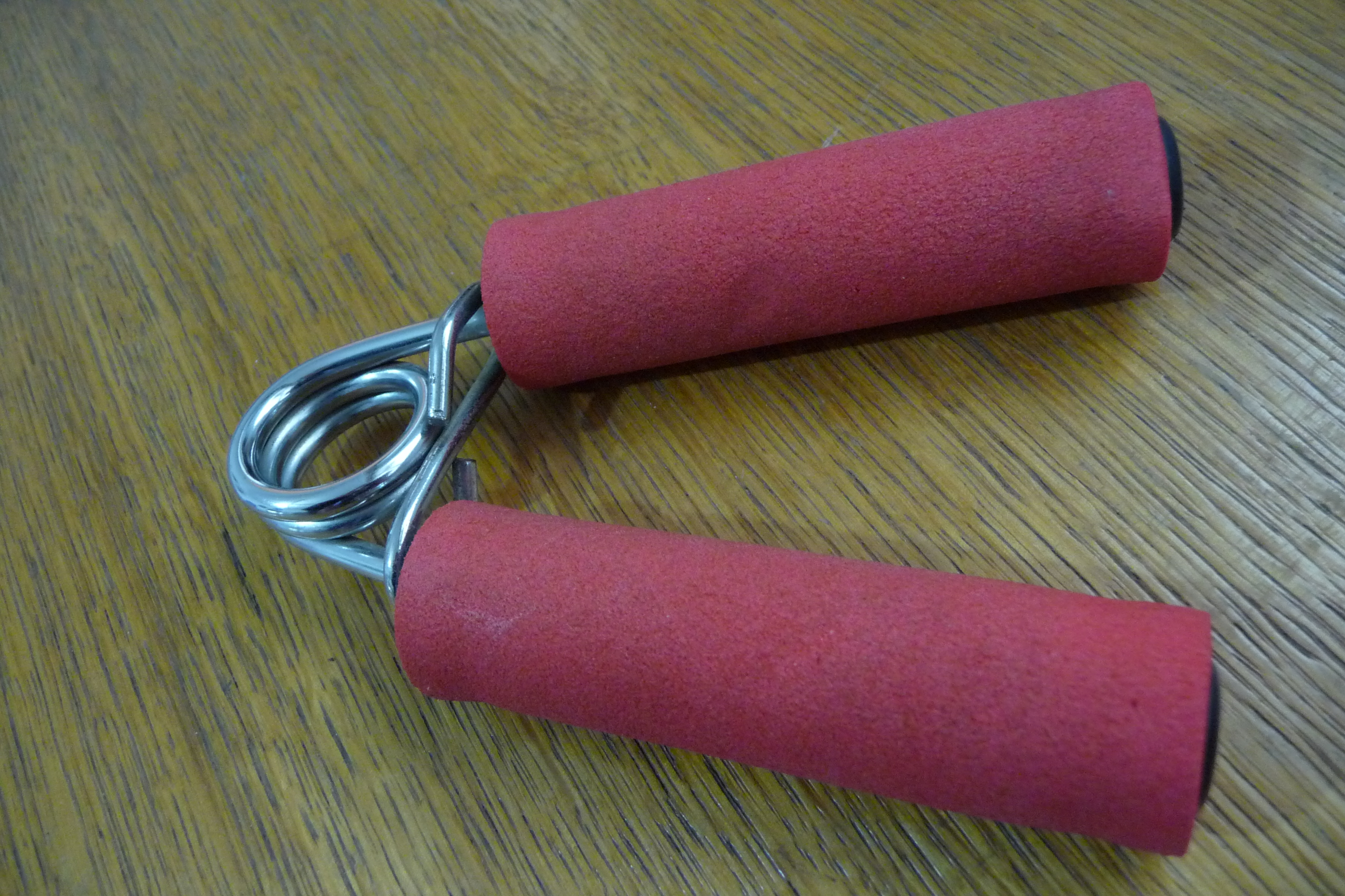 Instrument to strengthen the hand muscles Fitness